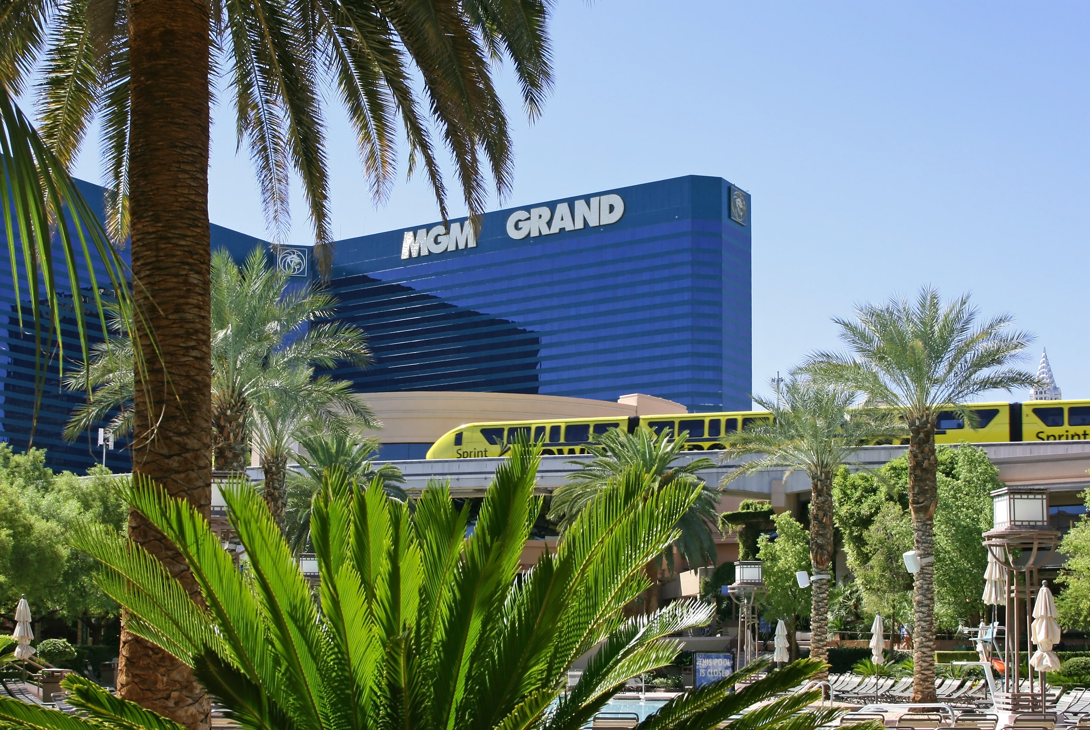 Las Vegas Monorail am MGM Grand Hotel.